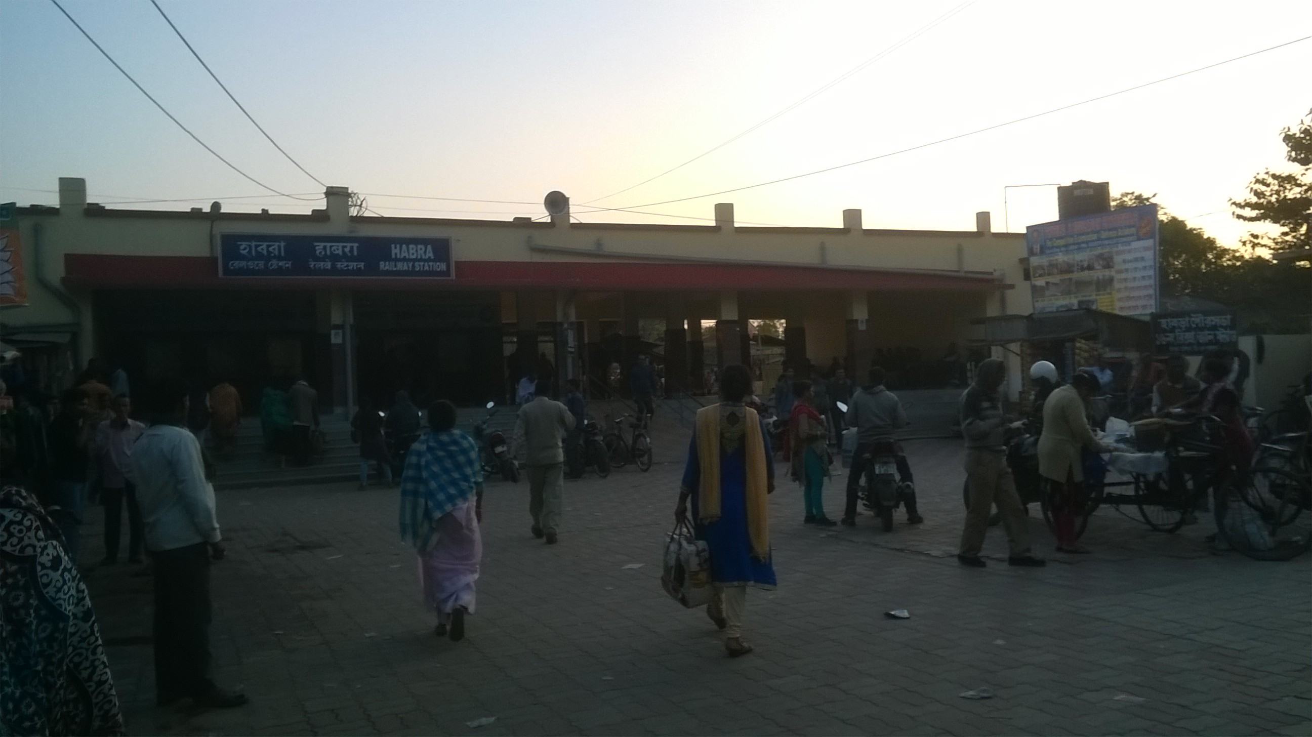 En:geatway of Habra station.